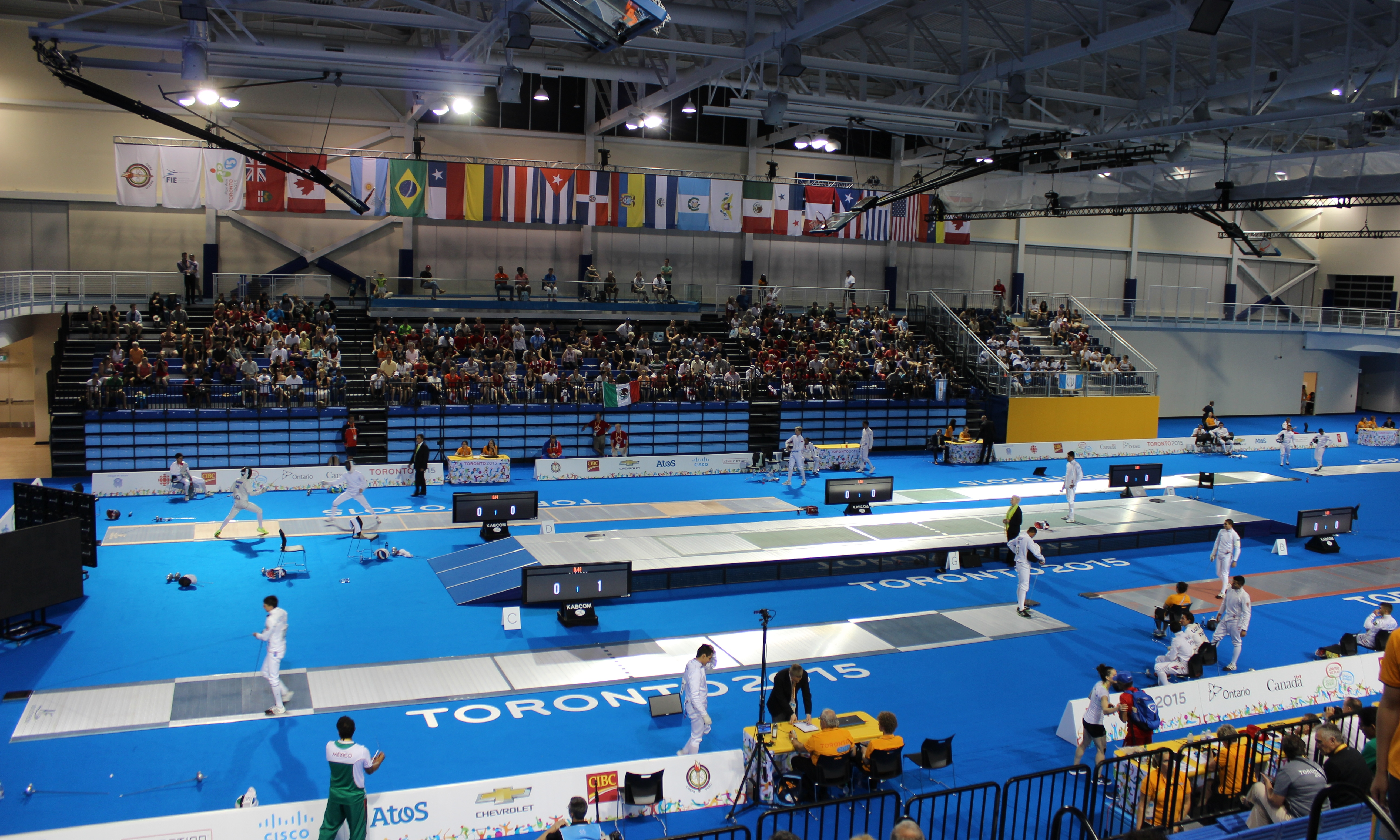 Toronto Pan Am Sports Centre field house during the Toronto 2015 Pan American Games